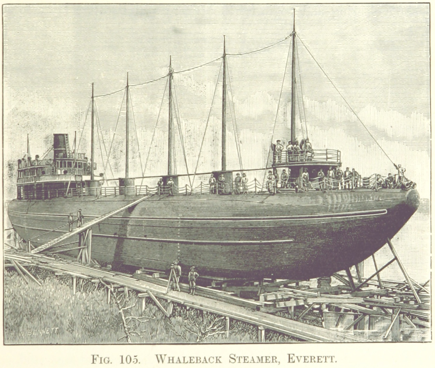 The SS City of Everett, under construction in its namesake. Note that it never *explicitly* names the ship, but as it's talking about the first whaleback built in Everett, and there was only ever one whaleback built in Everett, I assume the two are the same.